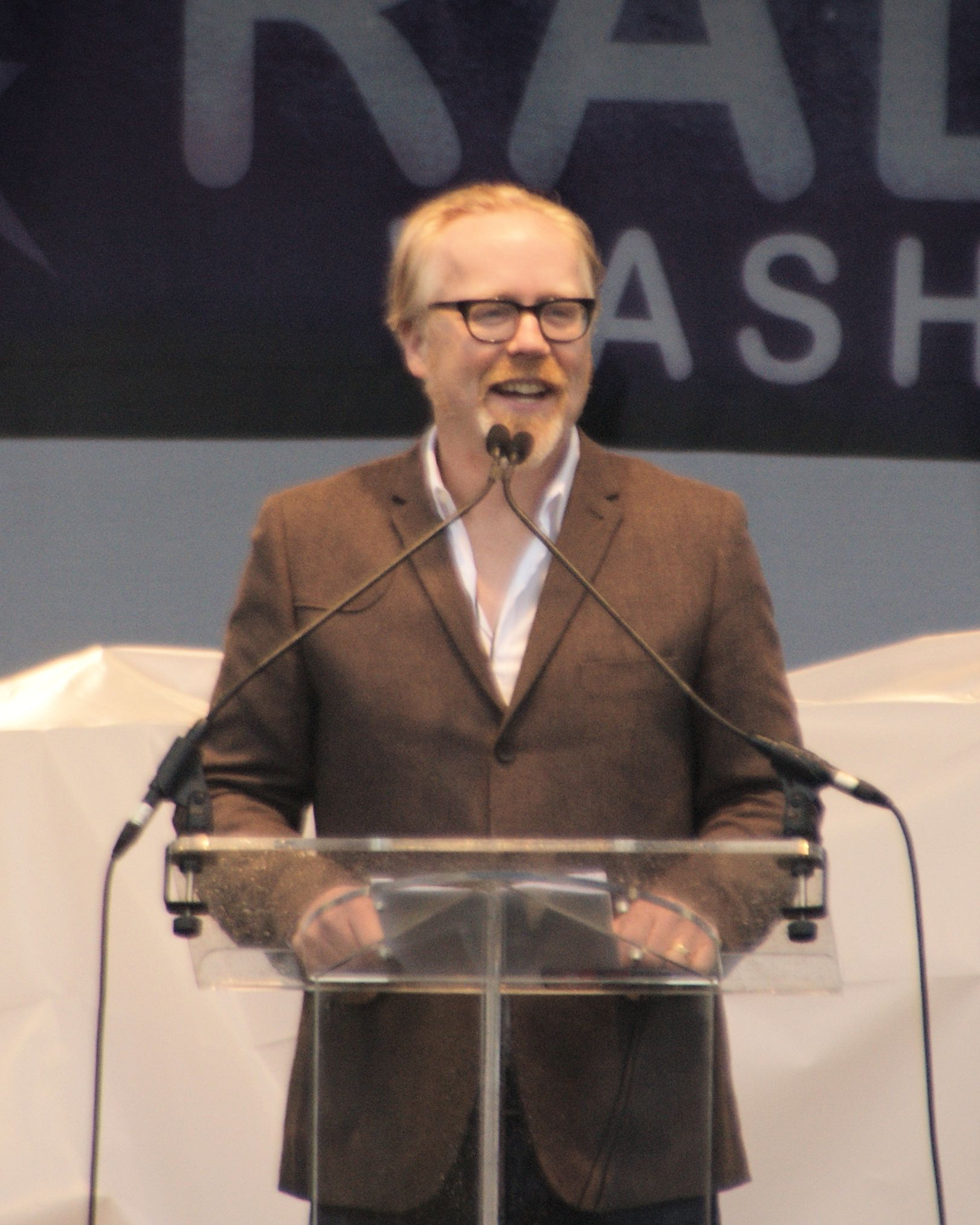 Adam Savage spoke at The Reason Rally on the National Mall, Washington, DC - March 24, 2012.